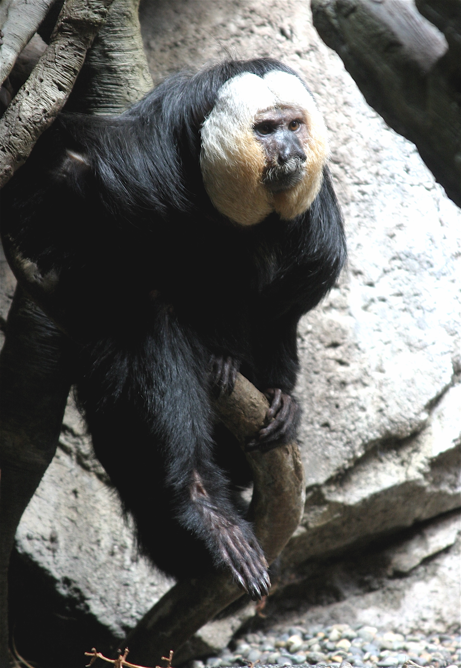 White-faced Saki (Pithecia pithecia) at the Oregon Zoo